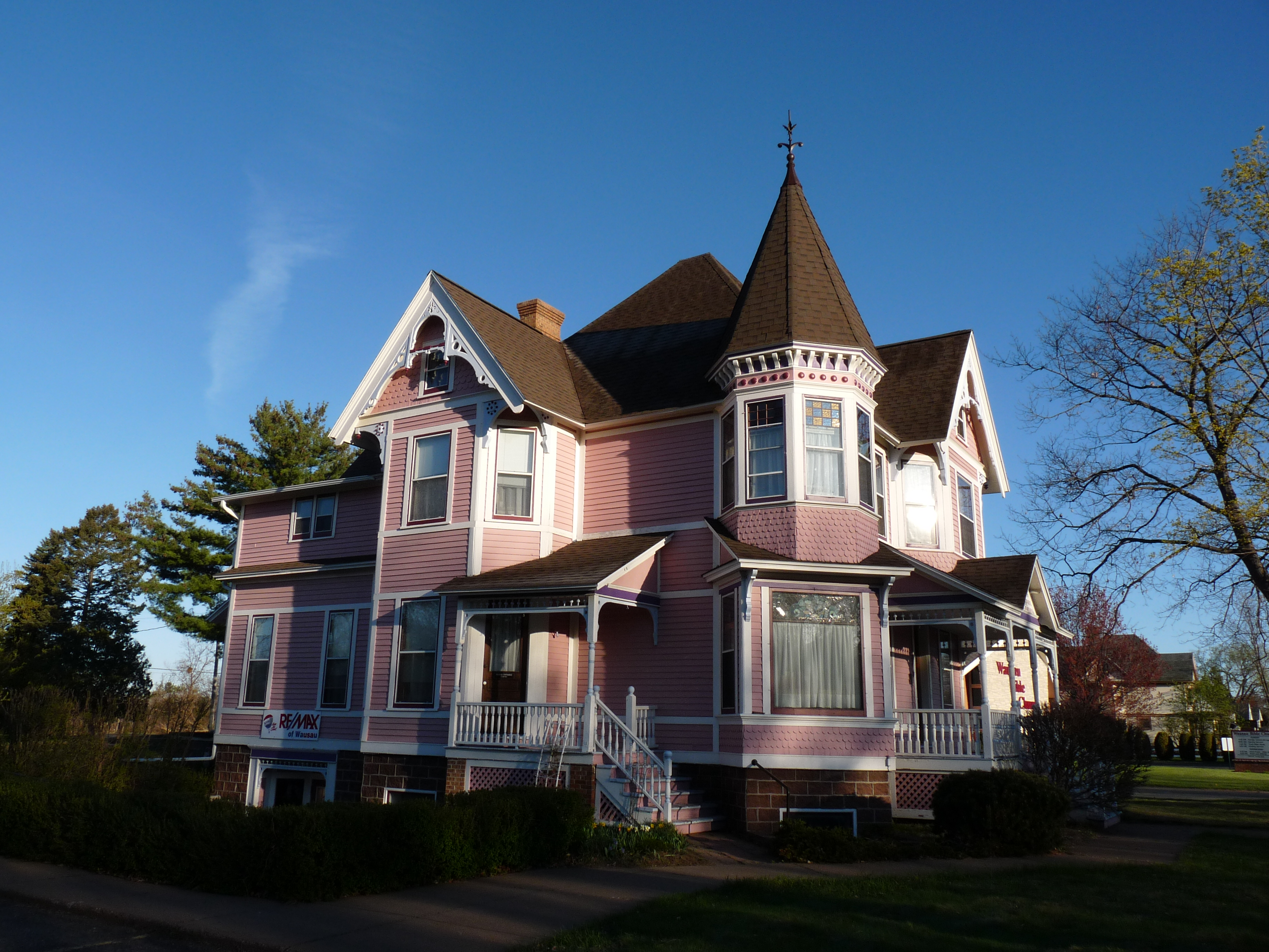 The Henry Miller House in Wausau, Wisconsin is one of the best preserved Queen Anne style houses in central Wisconsin. It is a George Barber design #128, and was built at 1210 Grand Ave in 1894 by local builder John Drisko. It features stained glass windows, ornate gingerbread gables, Eastlake detailing, and a polygon turret. After suffering from heat stroke during the house's construction, Drisko hung himself and the building was then completed by his widow. It was then sold to Henry Miller, who served as a county judge, State Assemblyman, and local retail store owner. After Miller's death in 1920, the house was sold to John Sell, former Wausau Mayor and sheriff. After Sell's death, the house was used as a boarding house from about 1960 until the late 1970's, when it became derelict. It was saved from demolition and moved to to it's current location at 1314 Grand Ave in 1981, when it was restored and used as offices, its most notable tenants being Natural Concepts and Remax Reatly. In 1982 it was listed on the National Register of Historic Places. In 2019, the building was purchased by Kristin and Adam Doede, who converted it back to a single family residence and are restoring the house to it's original grandeur.